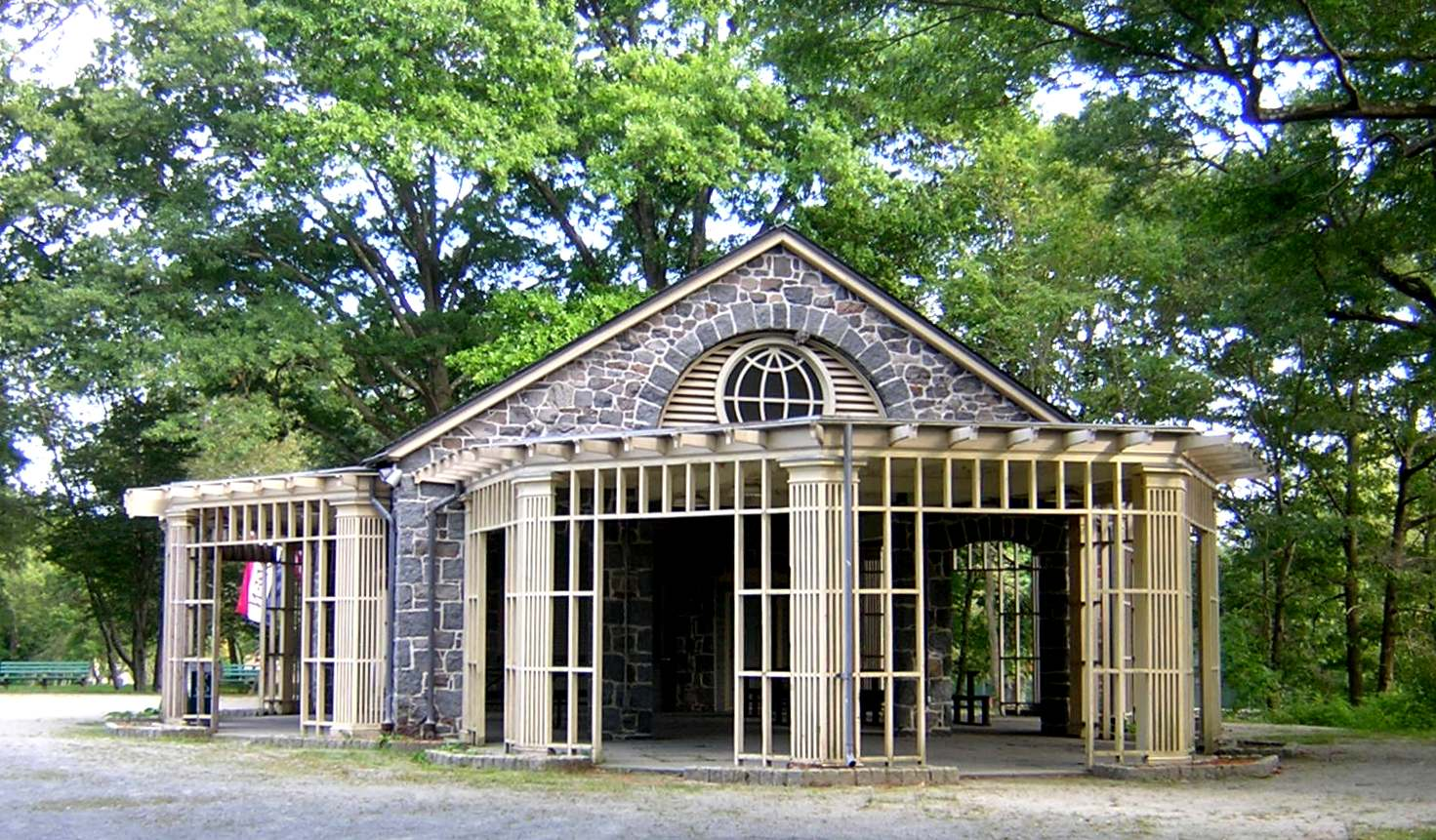 Refreshment Pavilion, Blue Hills Reservation, Houghton's Pond, Milton, Massachusetts USA looking east